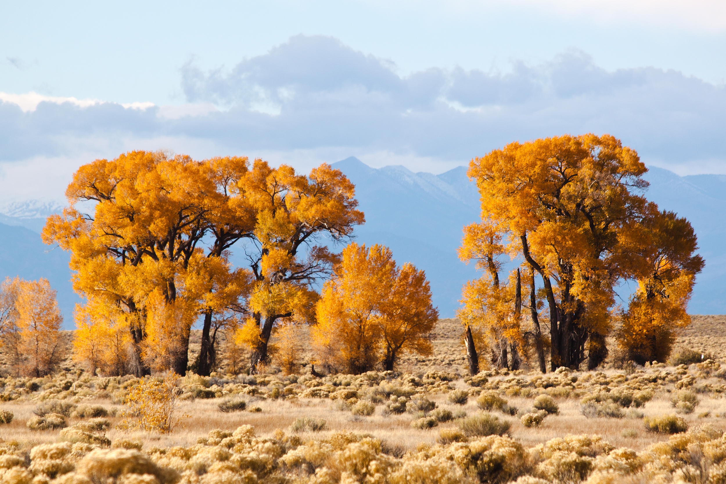 Narrowleaf cottownwoods (Populus angustifolia) located in Crestone, Colorado USA.